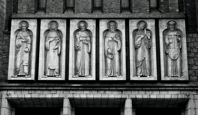 Front of church in Jaslo, Poland